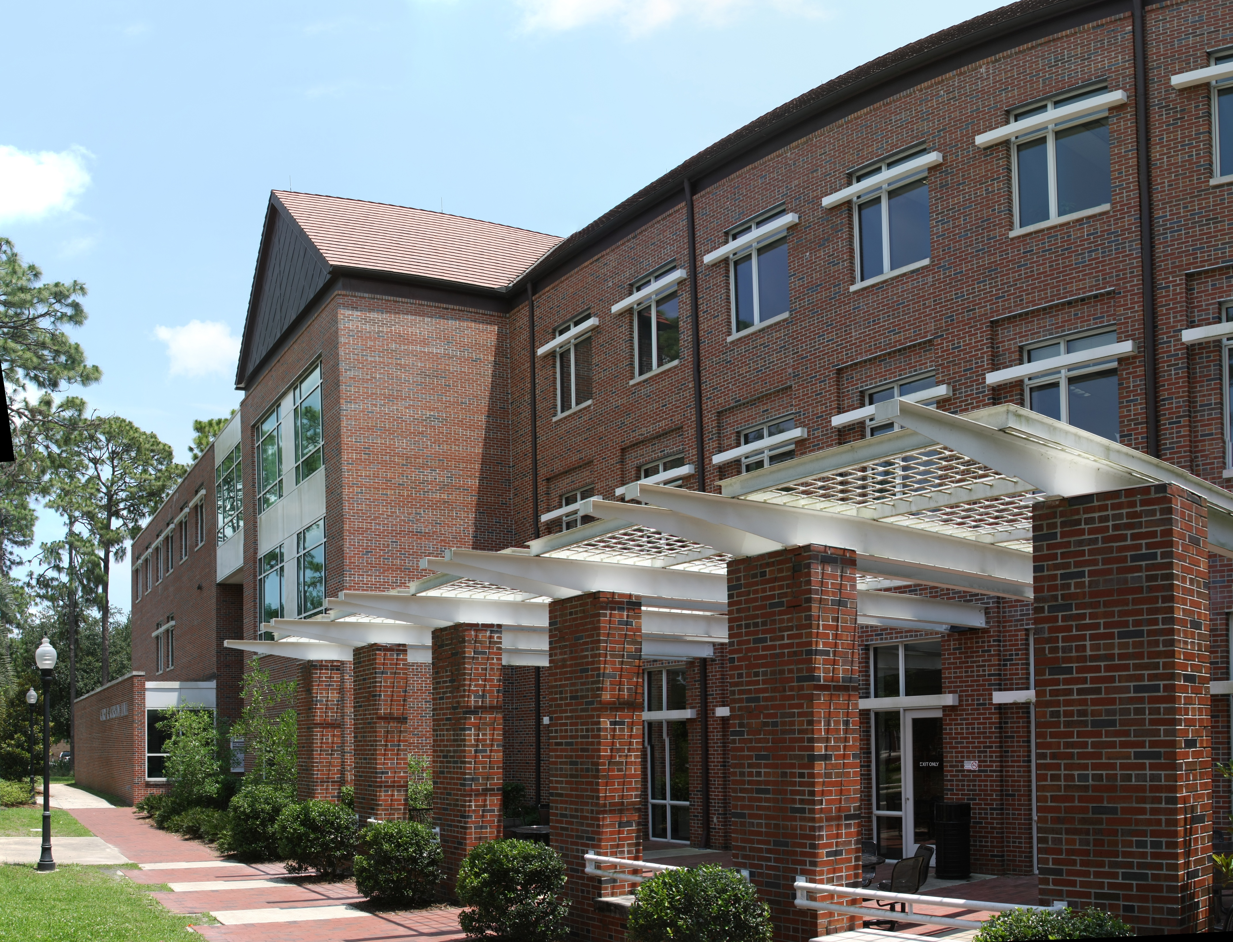 Gerson Hall, home of the Fisher School of Accounting. Composed by stitching five individual images and then some minor touching up using GIMP